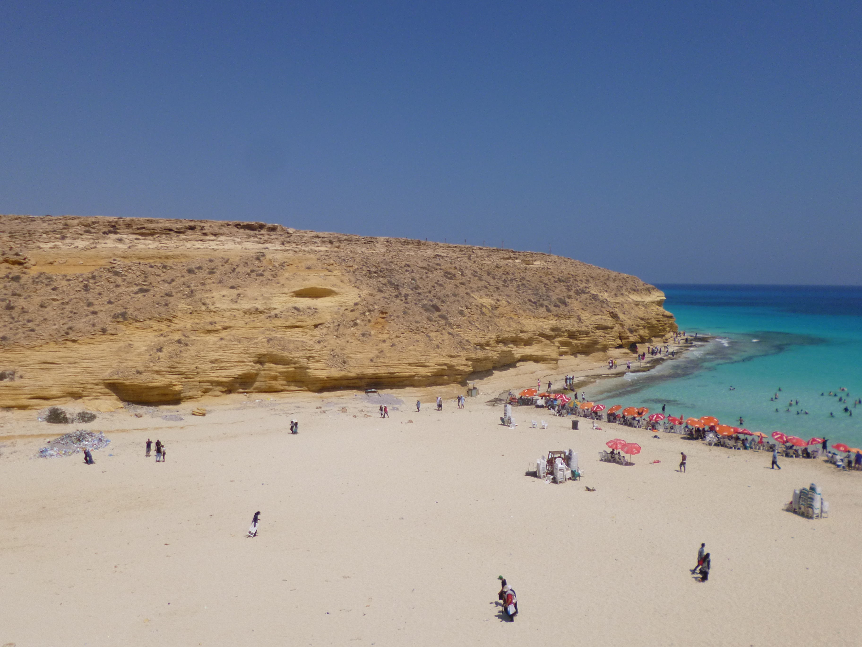 Agiba area